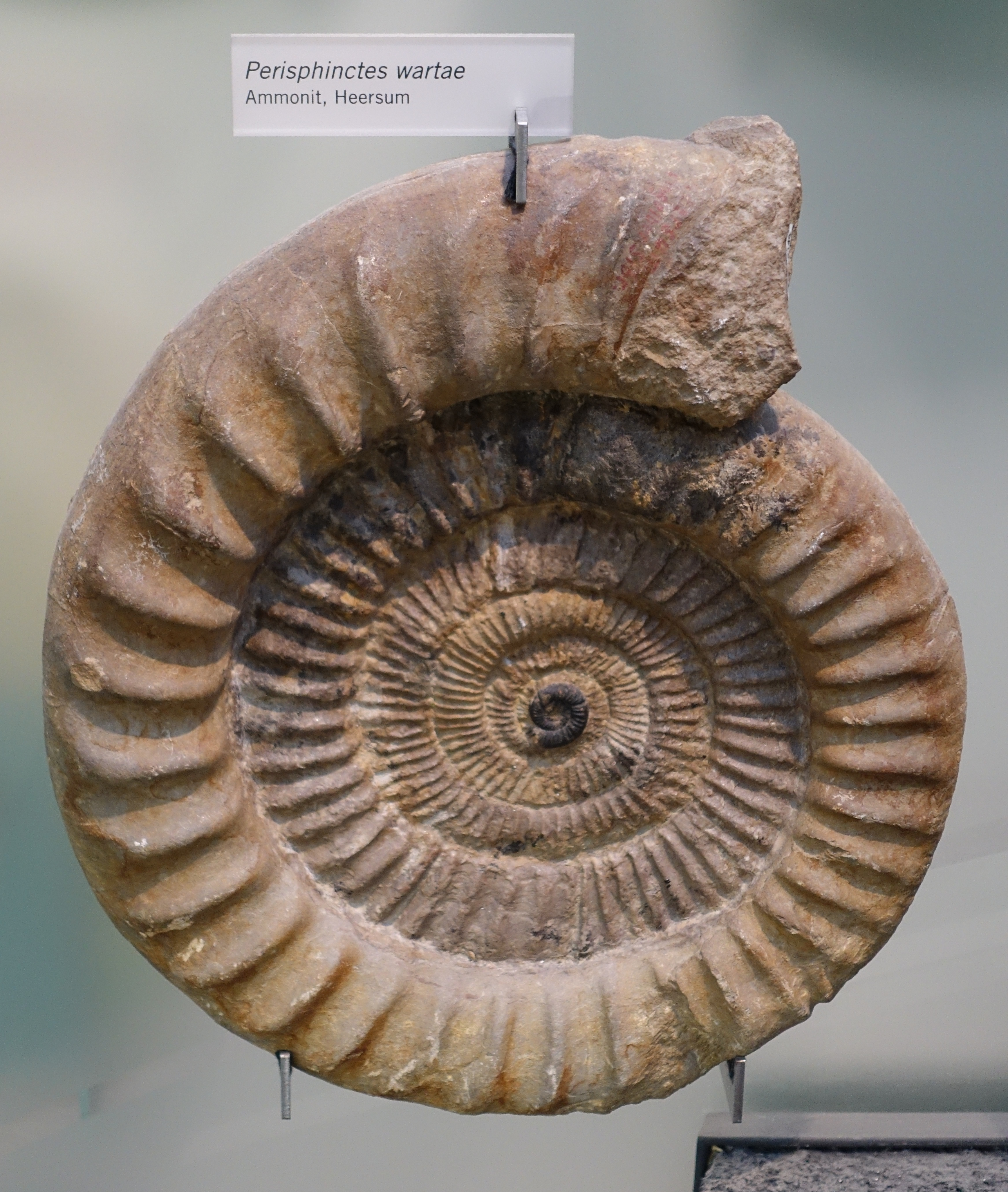 Exhibit in Museum für Naturkunde, Berlin, Germany.